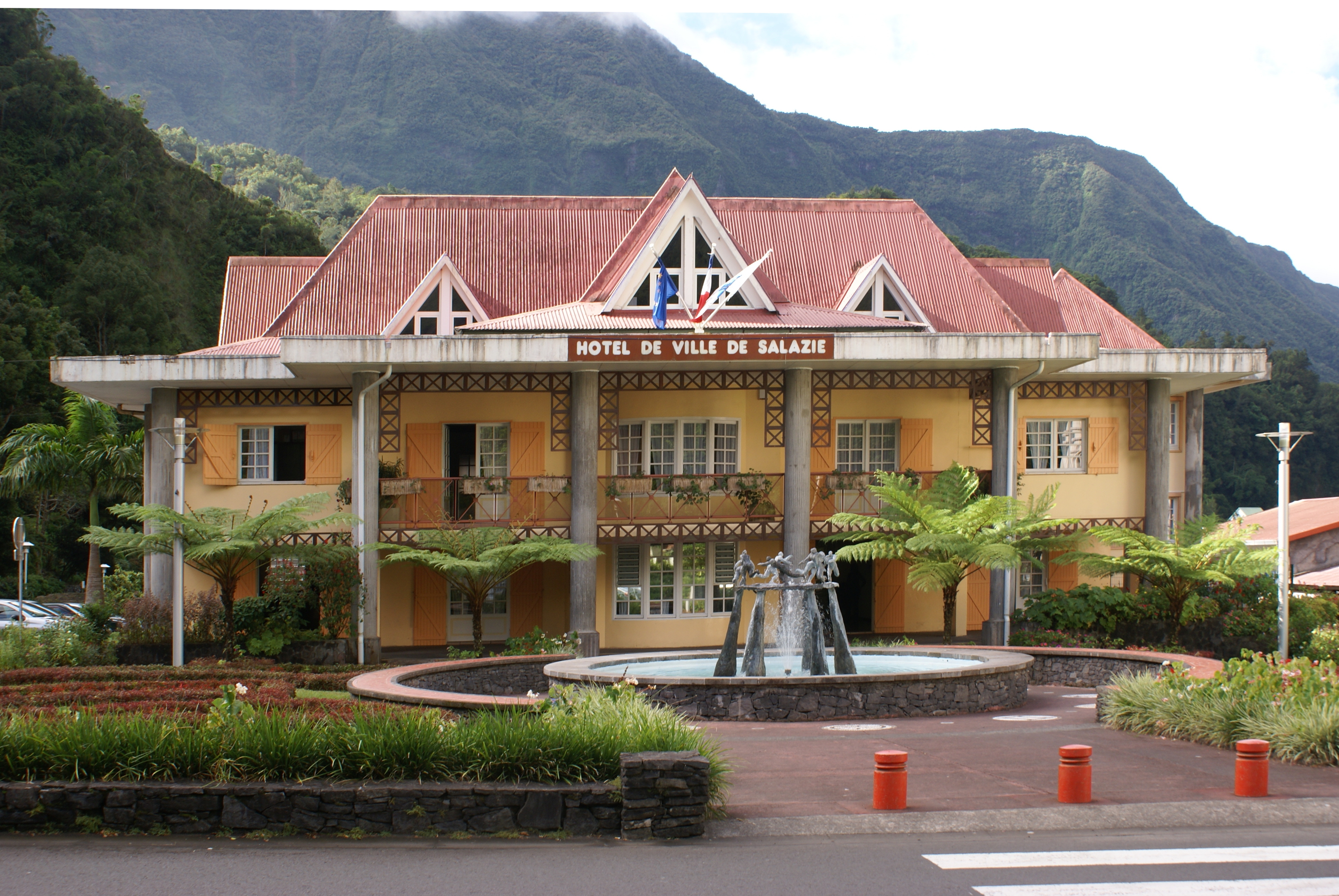 City hall of Salazie (Réunion island)